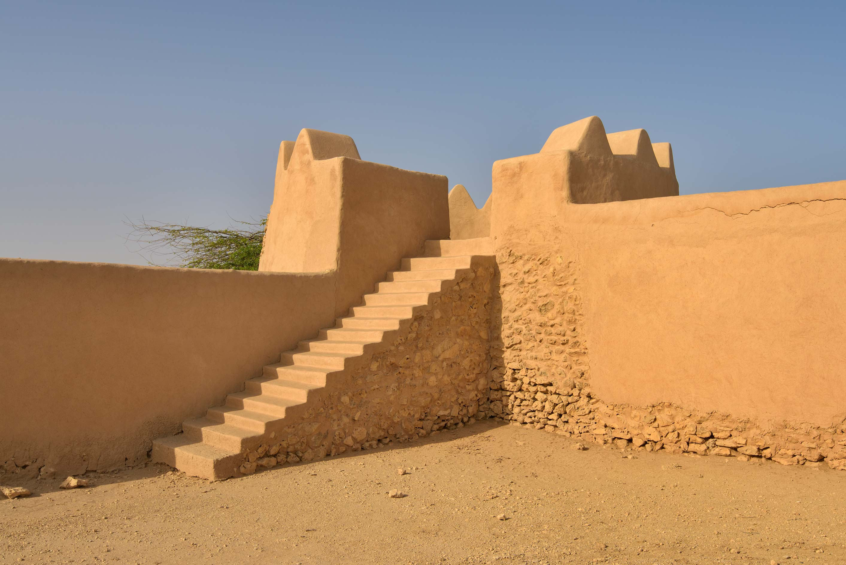 Staircase in Ar Rakiyat Fort, northwest Qatar.